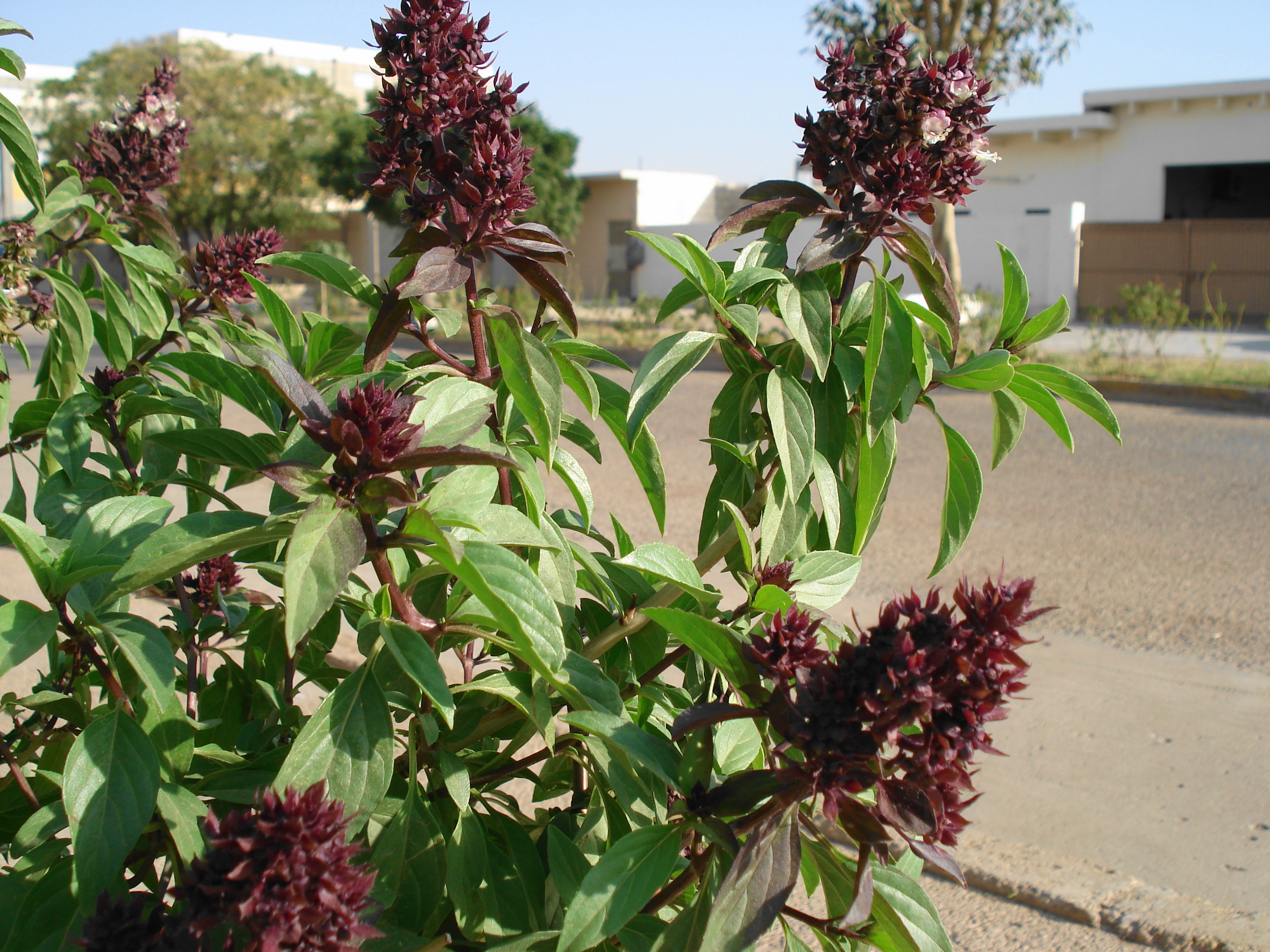 tulsi or marwa